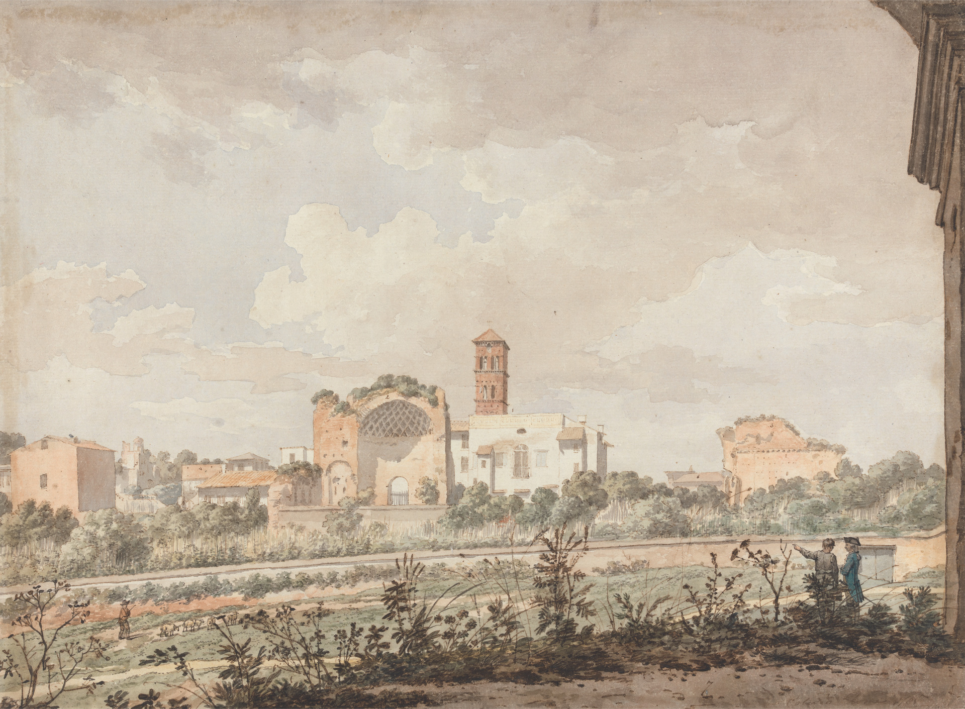 "Temple of Venus and Rome from the Colosseum," by the English artist William Pars. Watercolour with pen and brown and black ink over graphite on blued white laid paper. 12 1/16 inches x 16 3/8 inches (30.6 cm x 41.6 cm). Dated 1781. Courtesy of the Paul Mellon Collection, Yale Center for British Art, Yale University, New Haven, Connecticut.